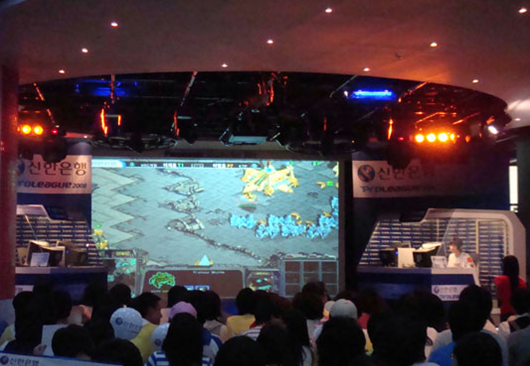 Lux HERO center